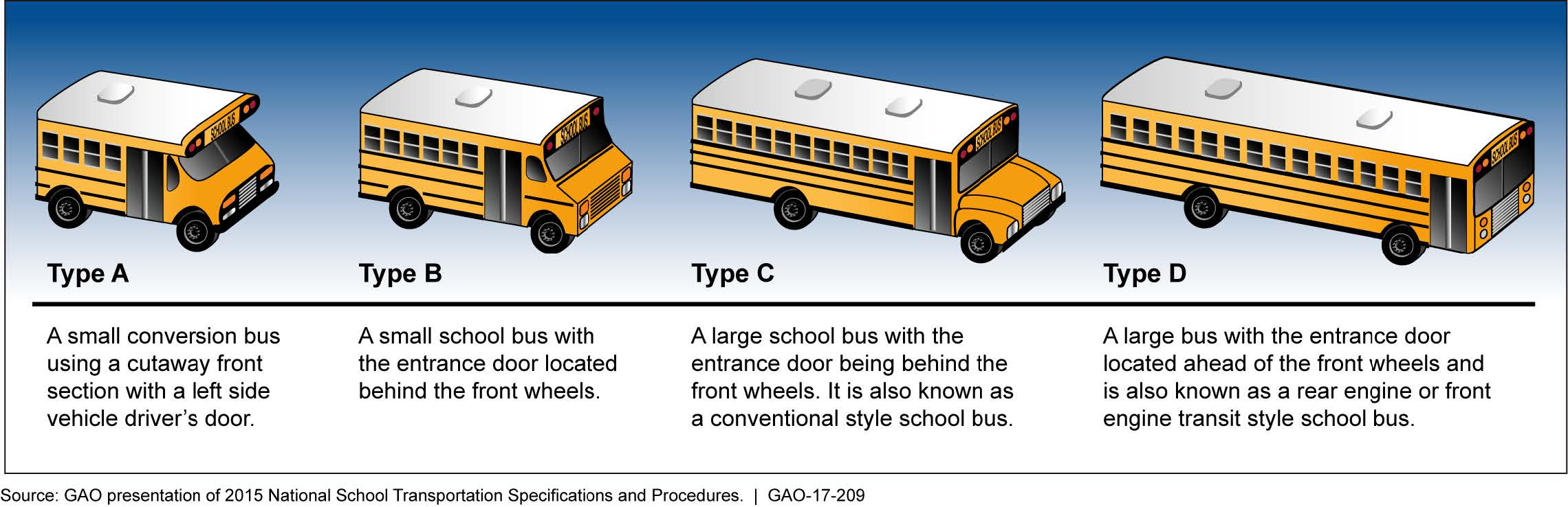 This image is excerpted from a U.S. GAO report: SCHOOL BUS SAFETY: Crash Data Trends and Federal and State Requirements